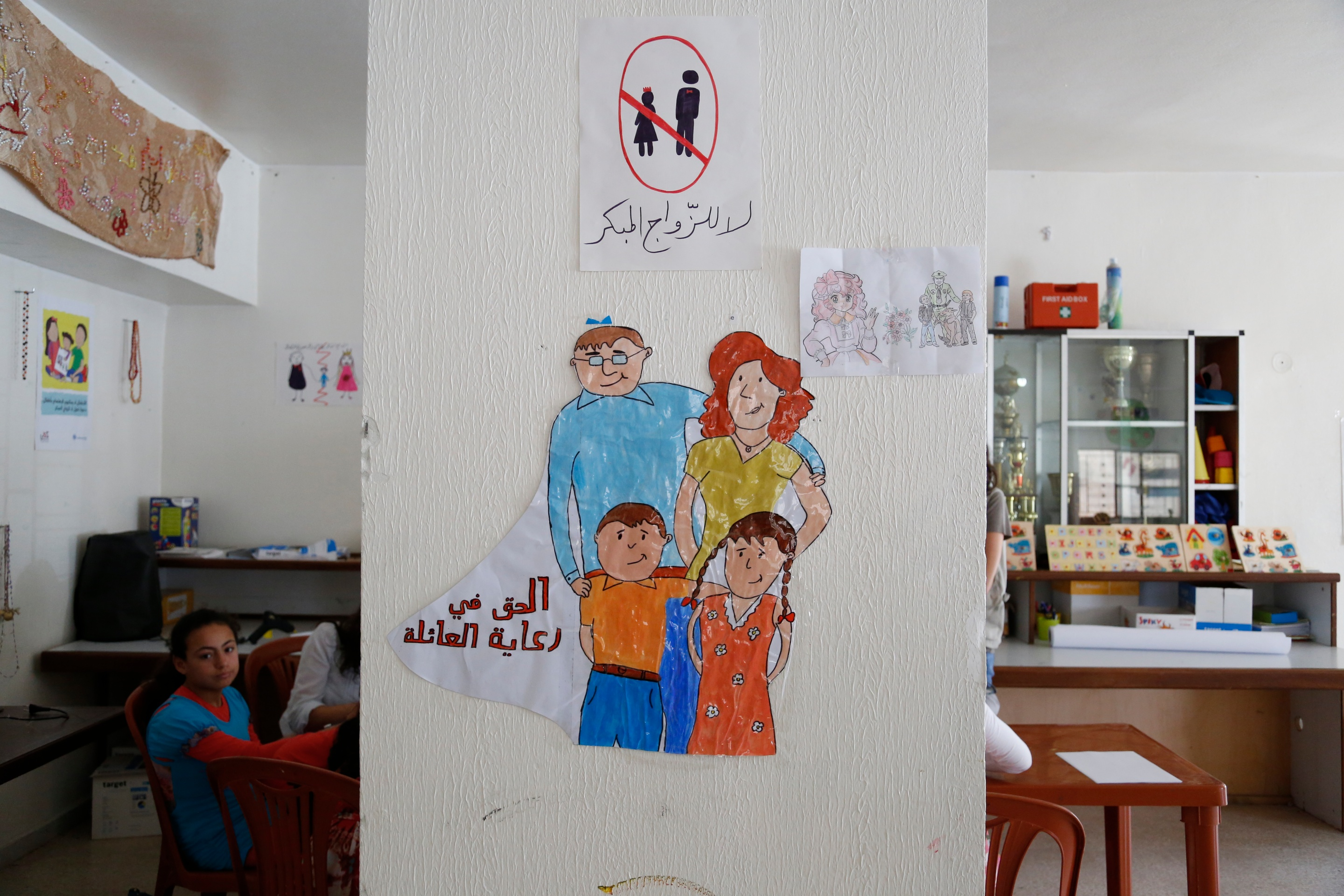 Drawings by young Syrian refugee girls in a community centre in southern Lebanon promote the prevention of child marriage. Child marriage was an issue inside Syria even before the current crisis. 13% of girls under 18 in Syria were married in 2011*. *Source: UNICEF State of the World’s Children 2013, table 11, pp142. Picture: Russell Watkins/Department for International Development. Available free for editorial use under Crown Copyright/Open Government License/Creative Commons - Attribution